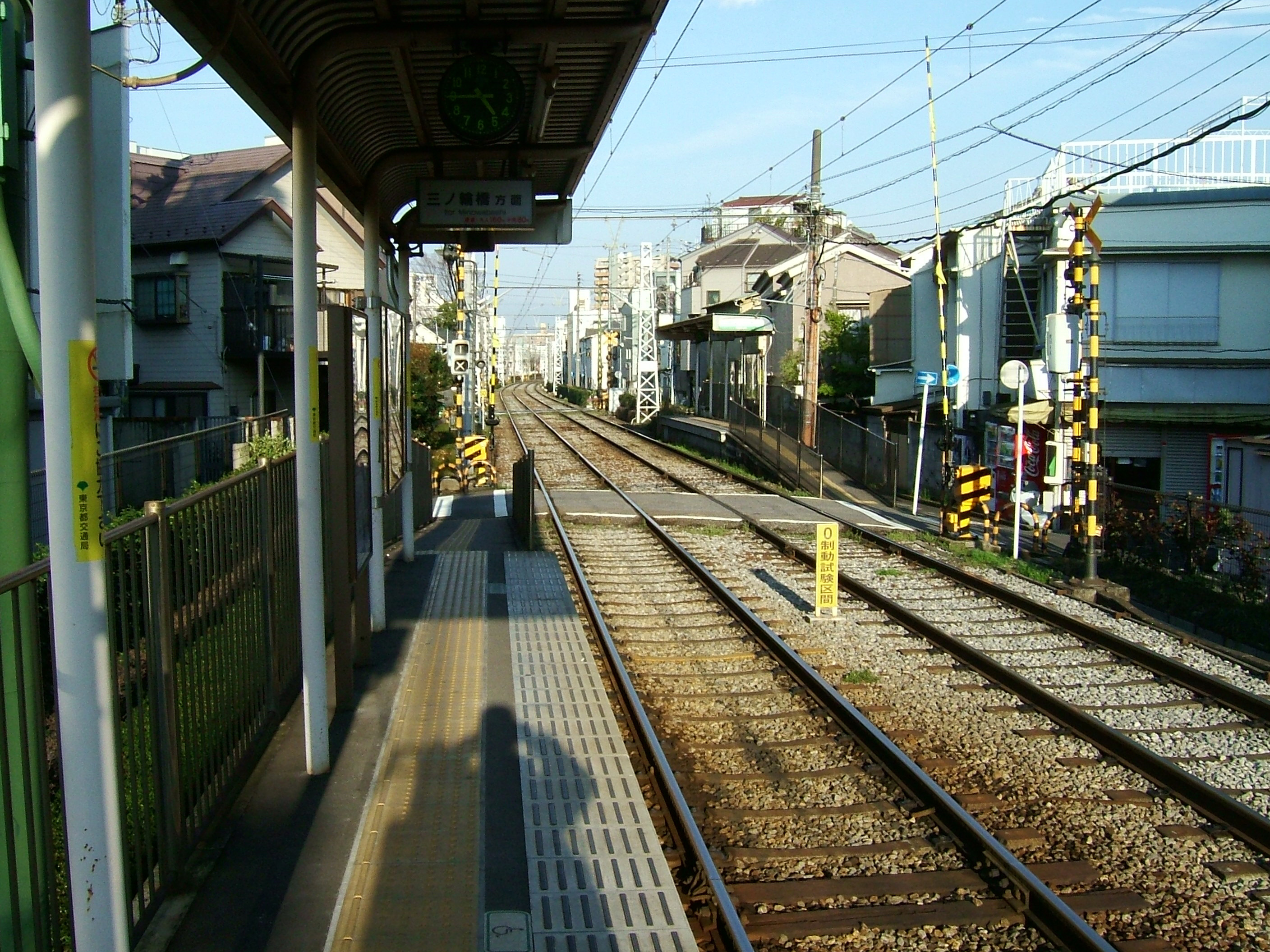 Sakaecho Station (Toden Arakawa Line)